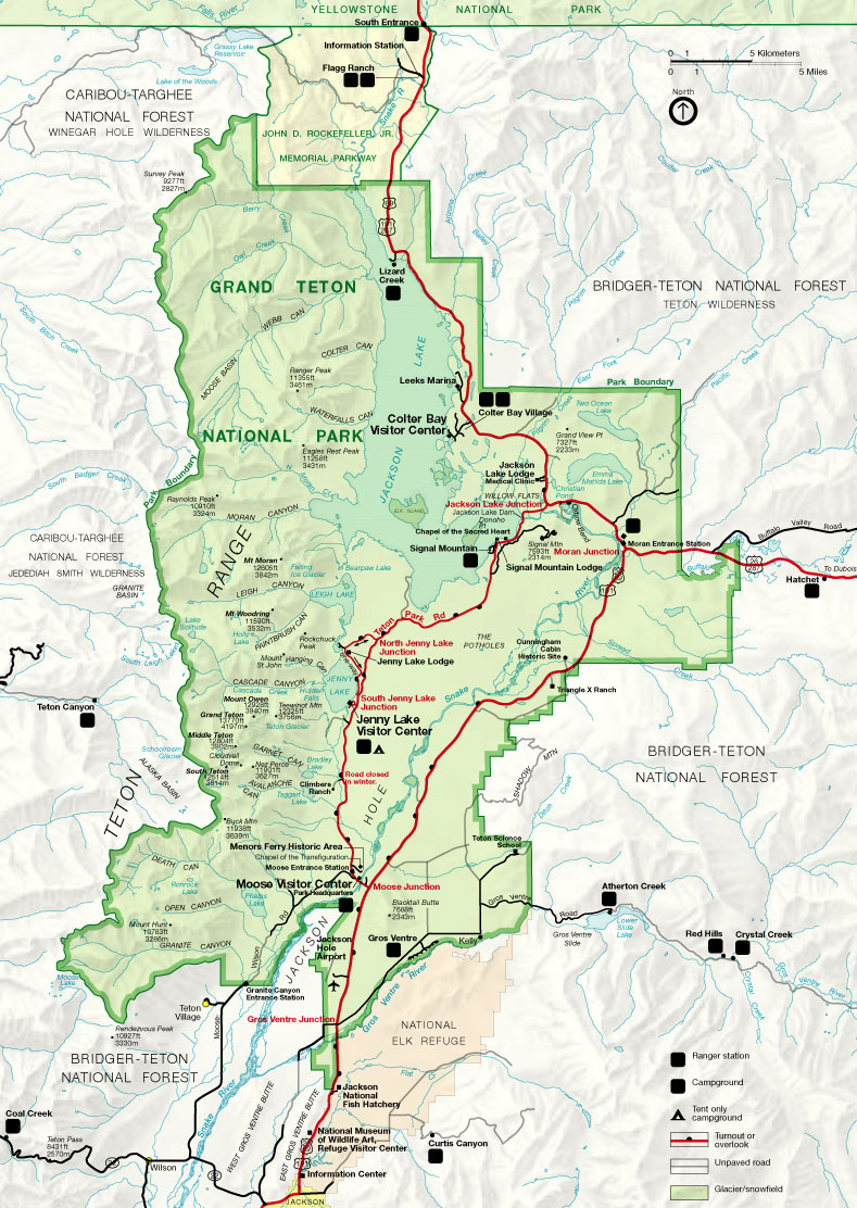 NPS map